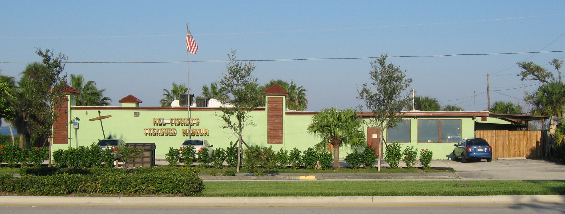 Front (west side) of Mel Fisher’s Treasure Museum, 1322 U.S. Highway 1, Sebastian, Florida. Photograph taken from U.S. Highway 1.